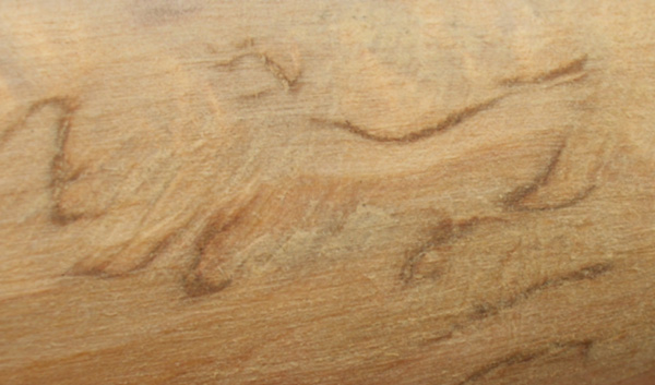 curly birch surface